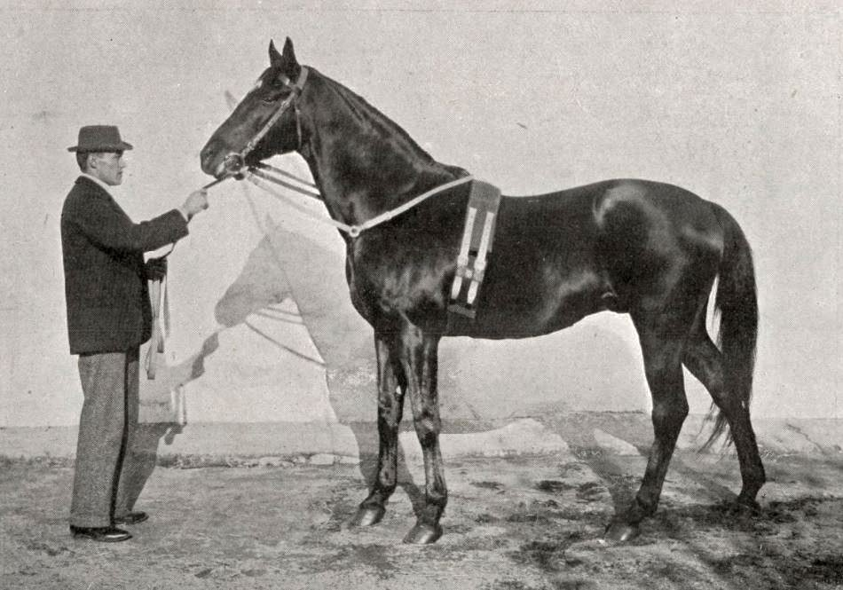 Galliard, winner of the 2000 Guineas.